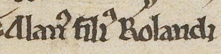 An excerpt from folio 28v of British Library Cotton MS Faustina B IX (the Chronicle of Melrose). The excerpt refers to Alan fitz Roland, Lord of Galloway (died 1234). Alan's name appears twice on folio 28v; this is the second instance of it. The excerpt reads "Alanus filius Rolandi".